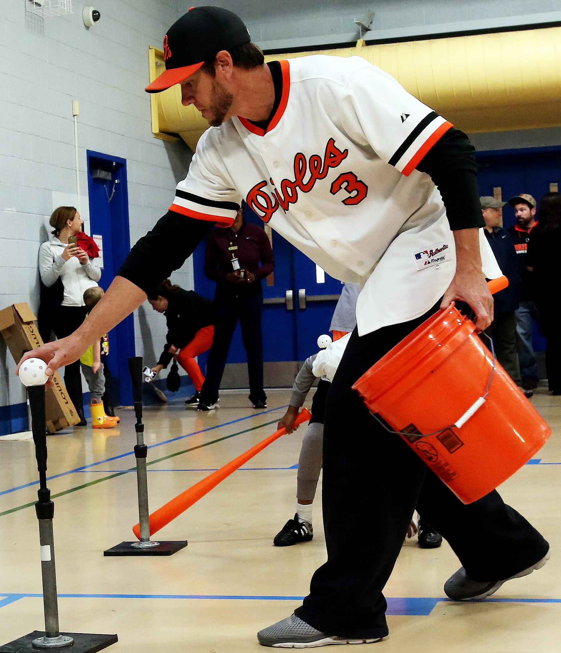 May 06, 2017: Former Baltimore Oriole Larry Bigbie sets up hitting drills for children of all ages. Baltimore Orioles players led a baseball clinic for Child and Youth Services. Photo by: Daniel Kucin Jr. Baltimore Sun